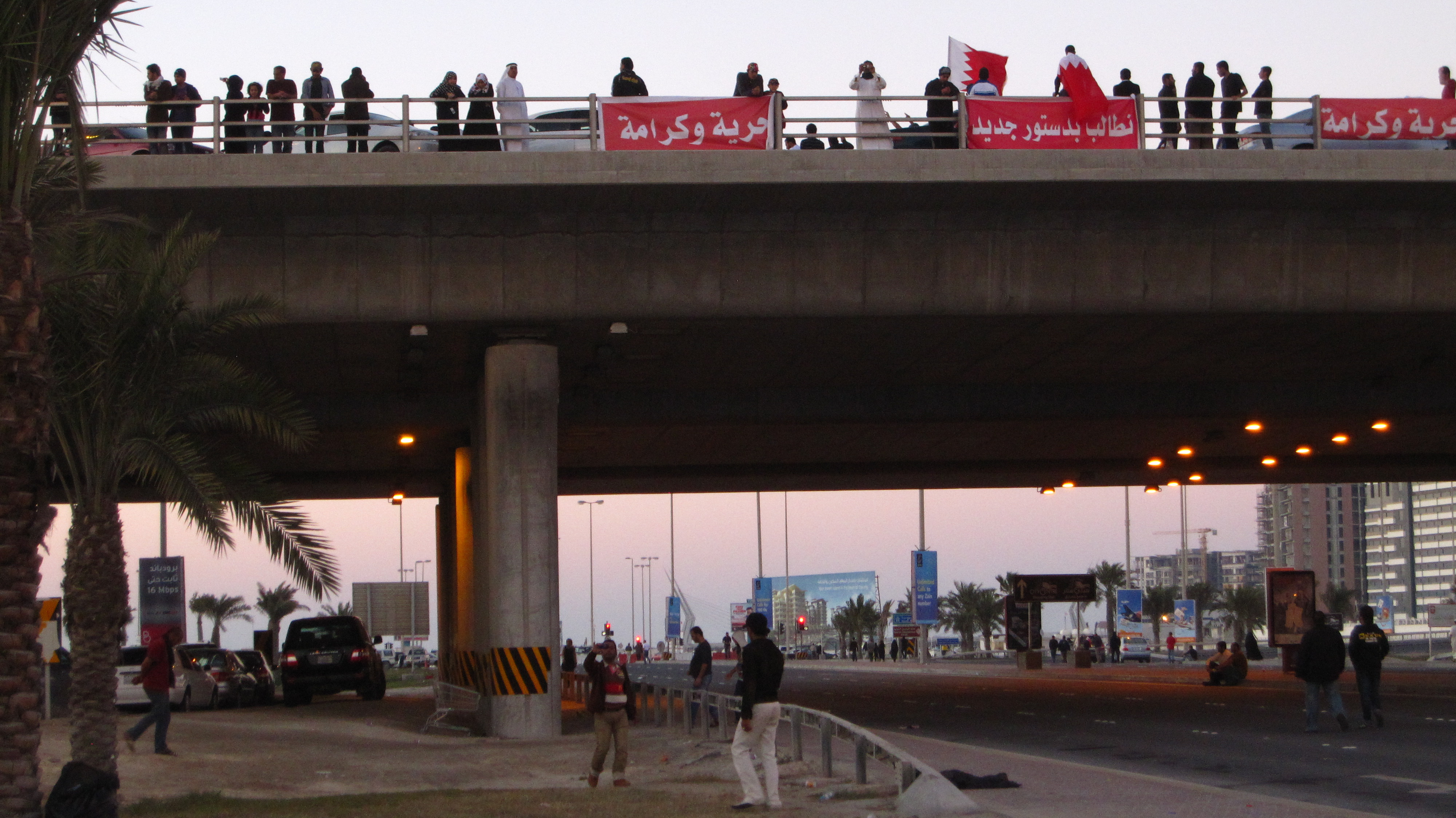 The bridge from which security forces shot sleeping protesters in the February 17 pre-dawn raid. One of the banner says "freedom and honor".